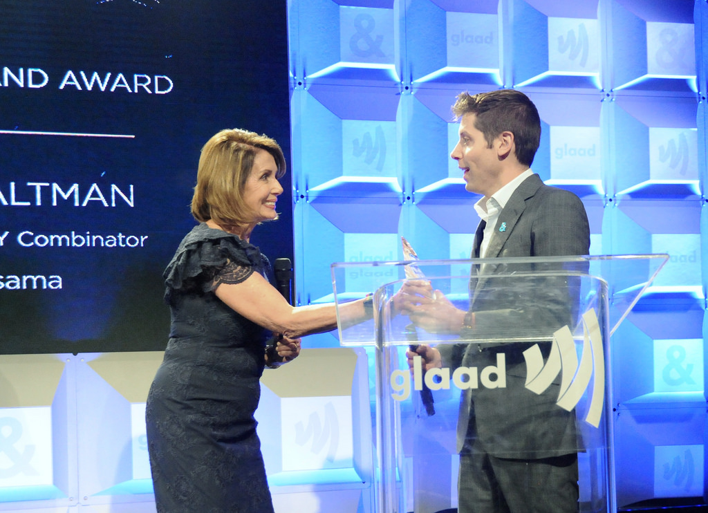 Congresswoman Pelosi made a surprise appearance at the 2017 GLAAD Gala where she spoke out against the President’s proposed ban on Transgender Service Members, discussed efforts to pass the Equality Act, and presented Sam Altman with the Ric Weiland Award for his empowering LGBTQ Inclusion in the Tech Industry. (Photo credit: Joe Pessa)